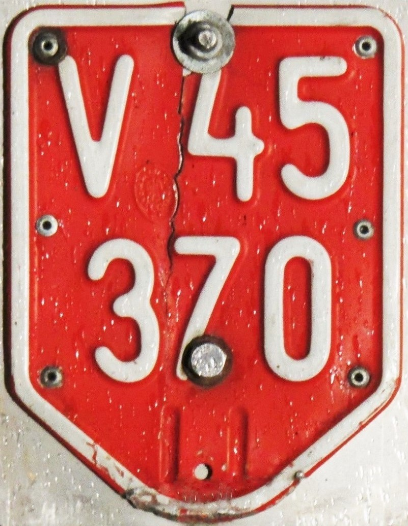 Old austrian moped license plate, Vorarlberg, 1947-1990